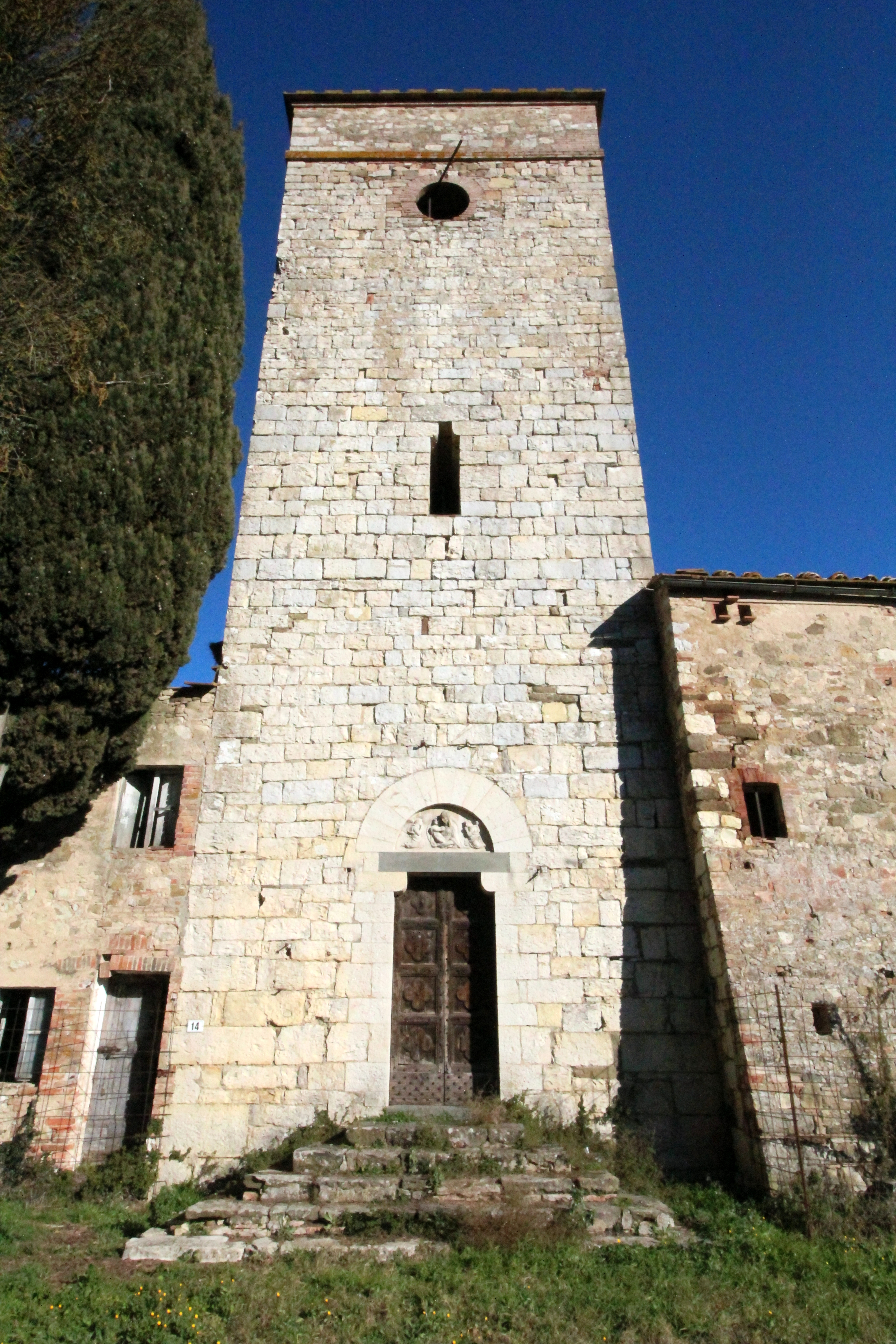 Church San Giovanni Battista (Pieve Asciata), in Pievasciata, Castelnuovo Berardenga, Province of Siena, Tuscany, Italy